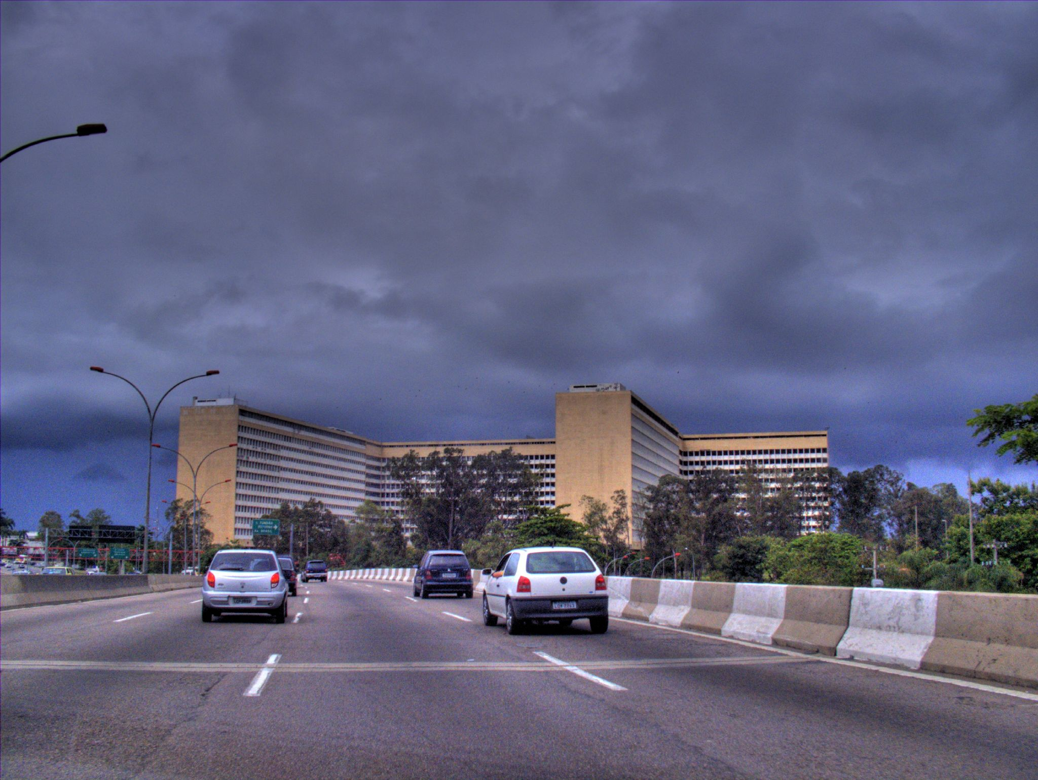 Hospital Universitário da UFRJ